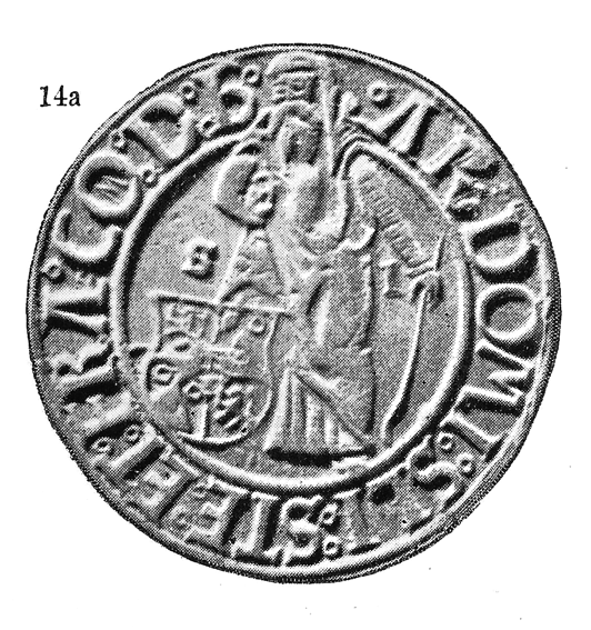 Half thaler of Count Stephan Schlick (died 1526) and his brother, 1525.